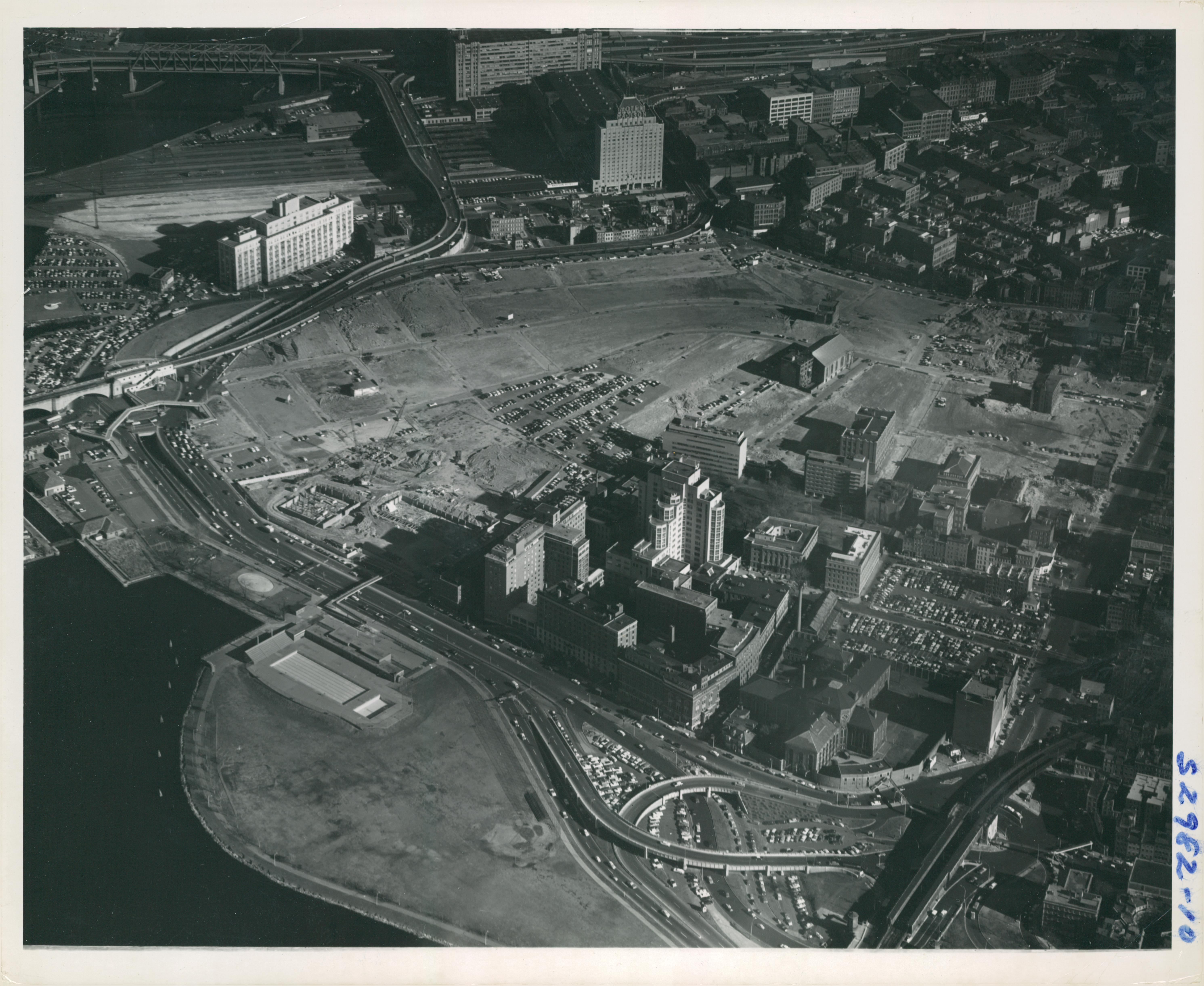 Title: West End project area looking northeasterly